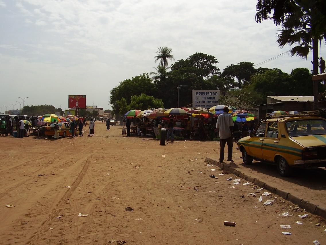 Westfield Junction, Serekunda, The Gambia